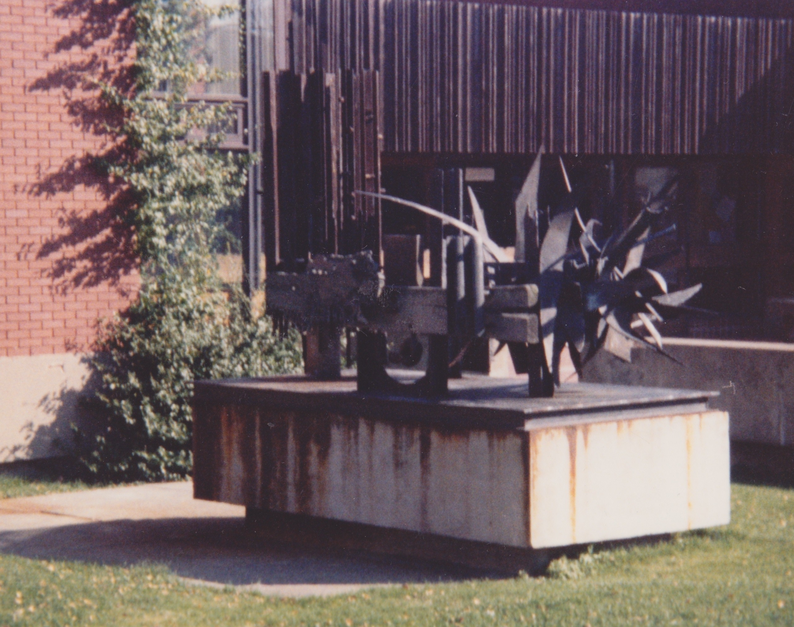 Photograph of Halifax Explosion Memorial Sculpture in front of the Halifax North Memorial Library looking southwest.